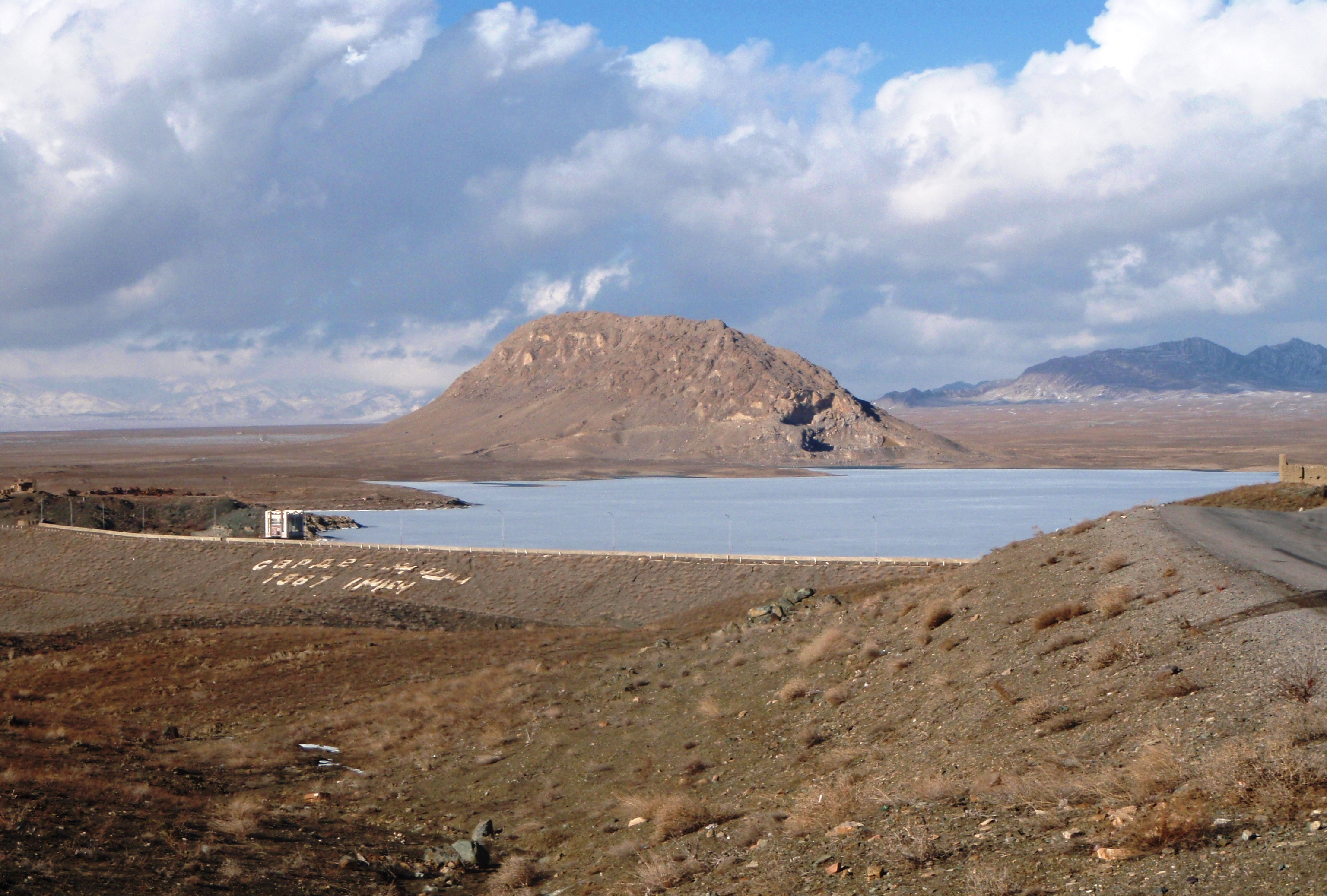 Band E Sardeh Dam of Andar, Ghazni, Afghanistan March 2012